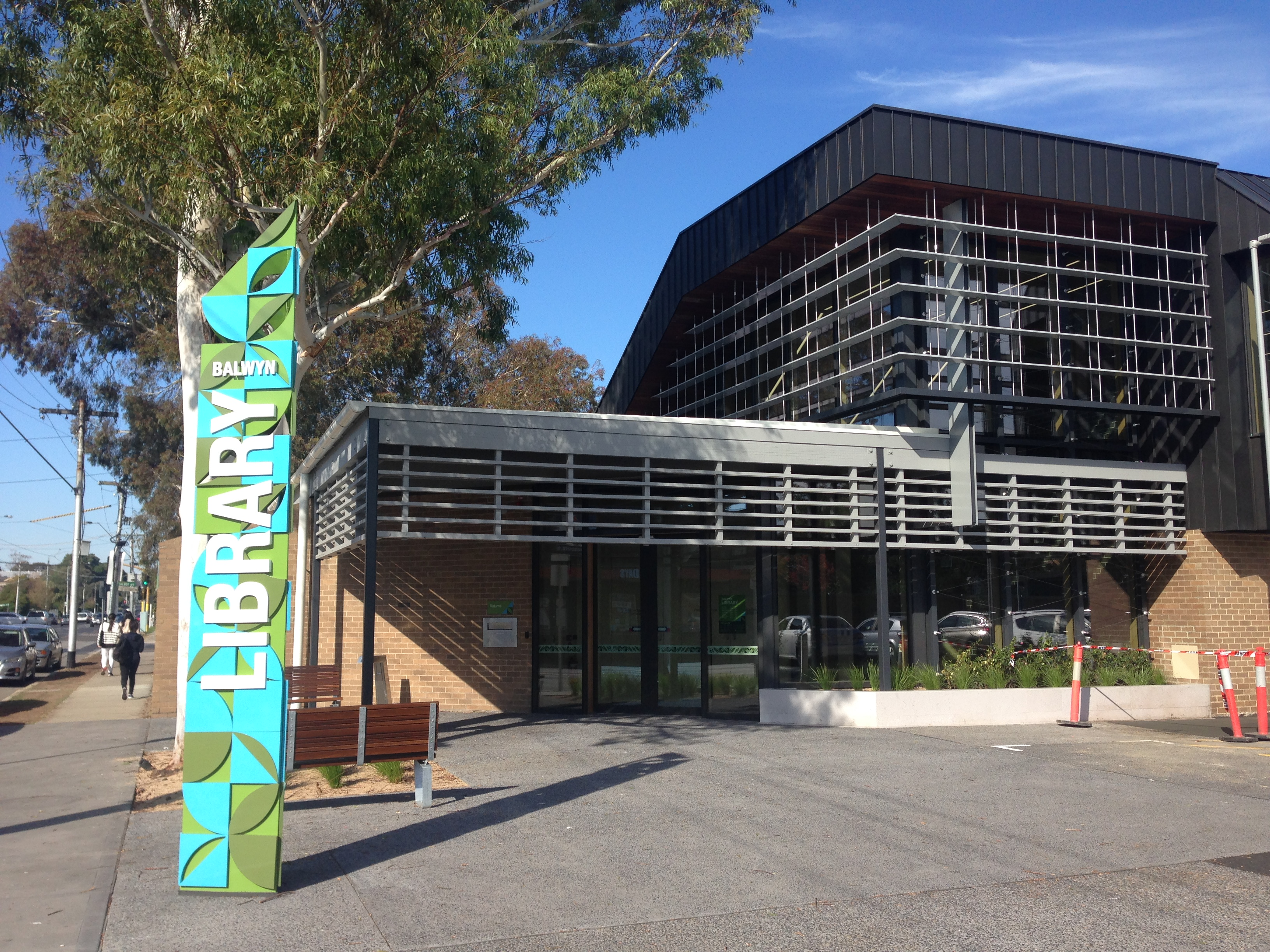 Entrance to refurbished Balwyn Library